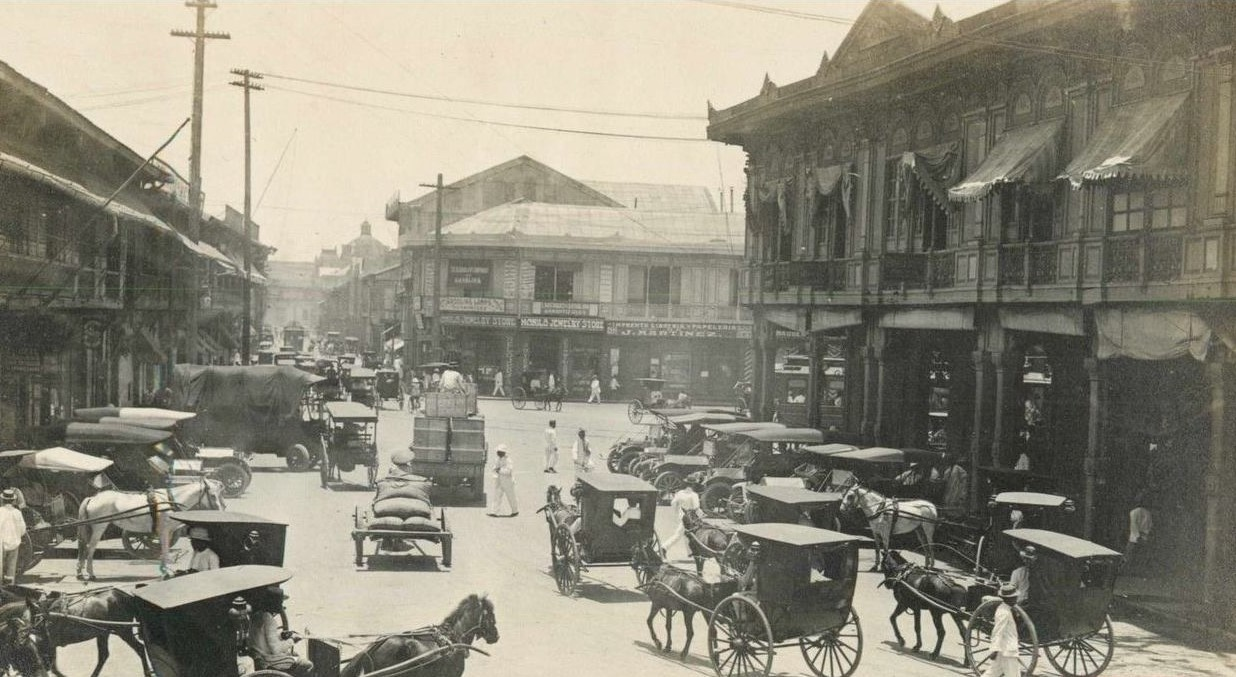 the beautiful streets of Manila